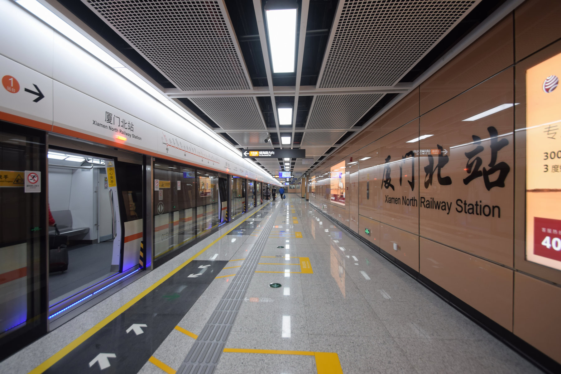 Line 1 Platform & Train of Xiamen North Railway Station, Xiamen Metro